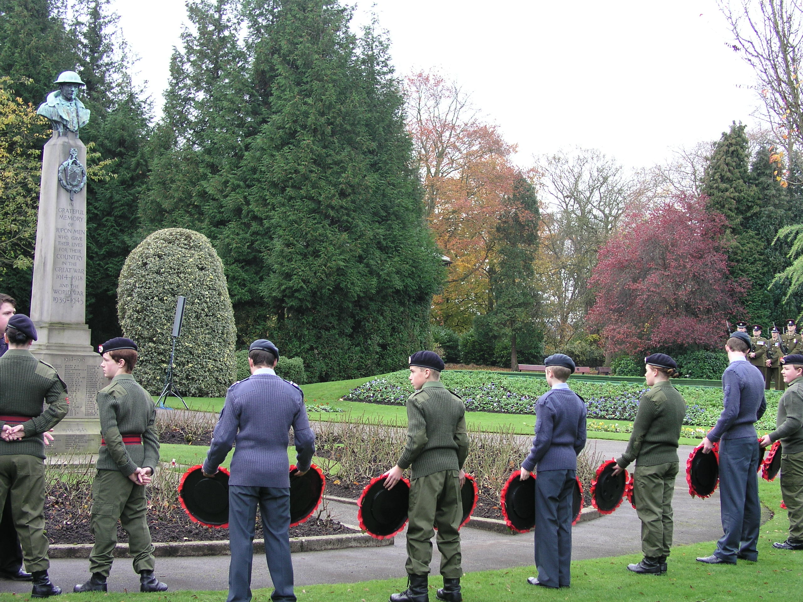 Members of the Air Training Corps and Army Cadet Force on parade at a Rememberence Sunday ceremony in Ripon, North Yorkshire.